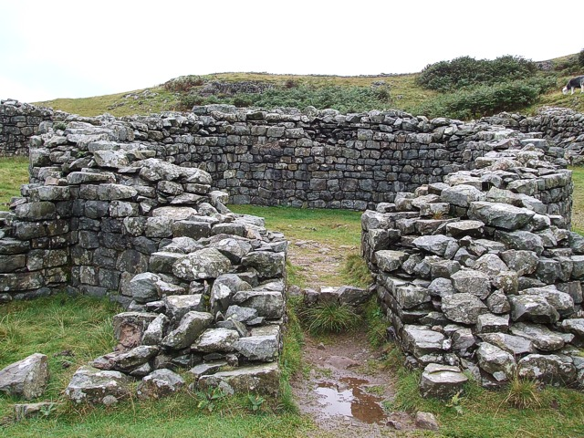 Roman Sauna. This "Laconicum" forms part of the bathhouse which served the Roman Fort of Mediobogdum, now known as Hardknott Castle. The bathhouse is situated outside the walls of the main fort a little way to the southeast. This circular sauna was separate from the rest of the 546609 and was supplied with its heat from its own furnace via a flue system.